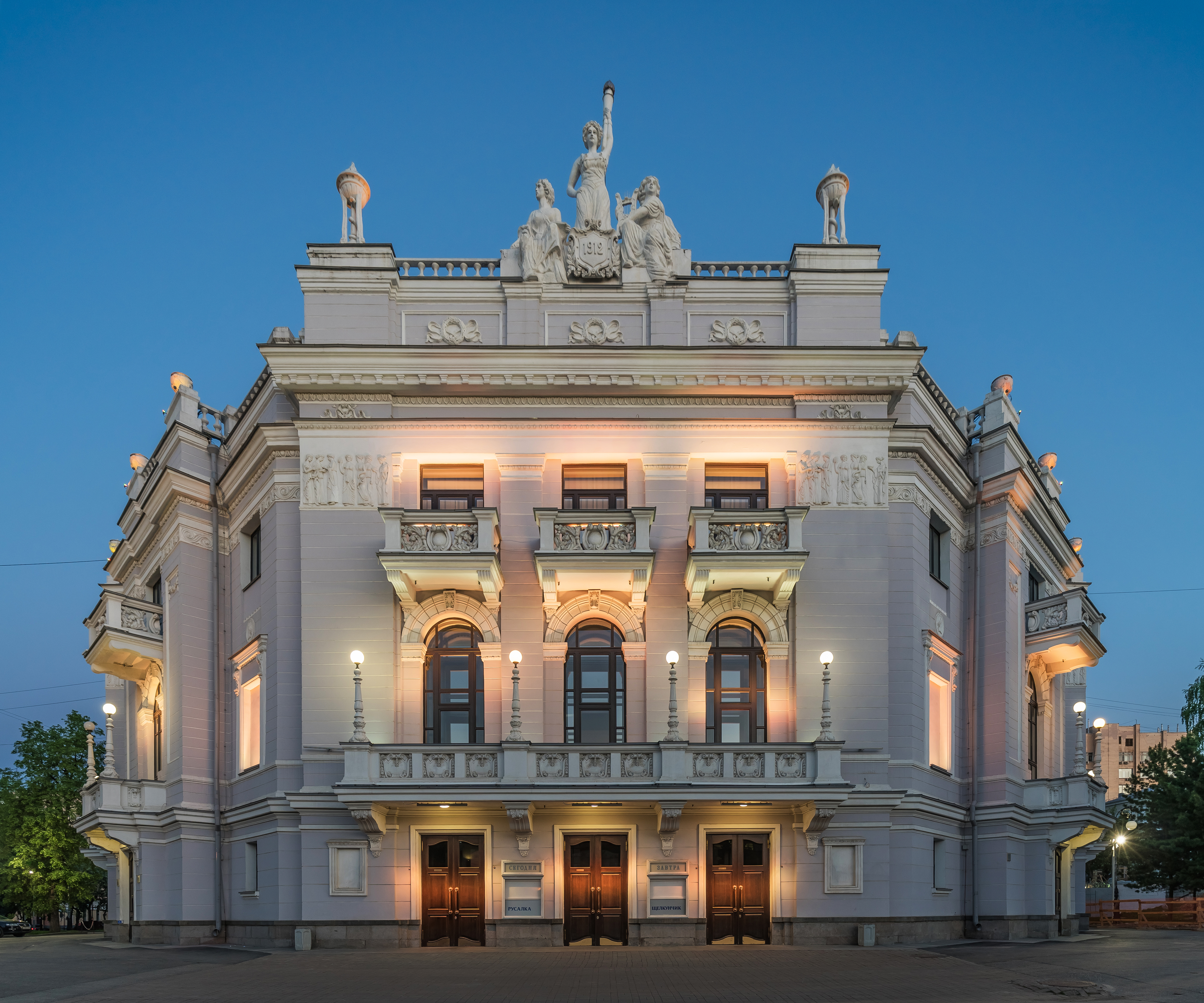 Opera and Ballet House in Ekaterinburg, Russia